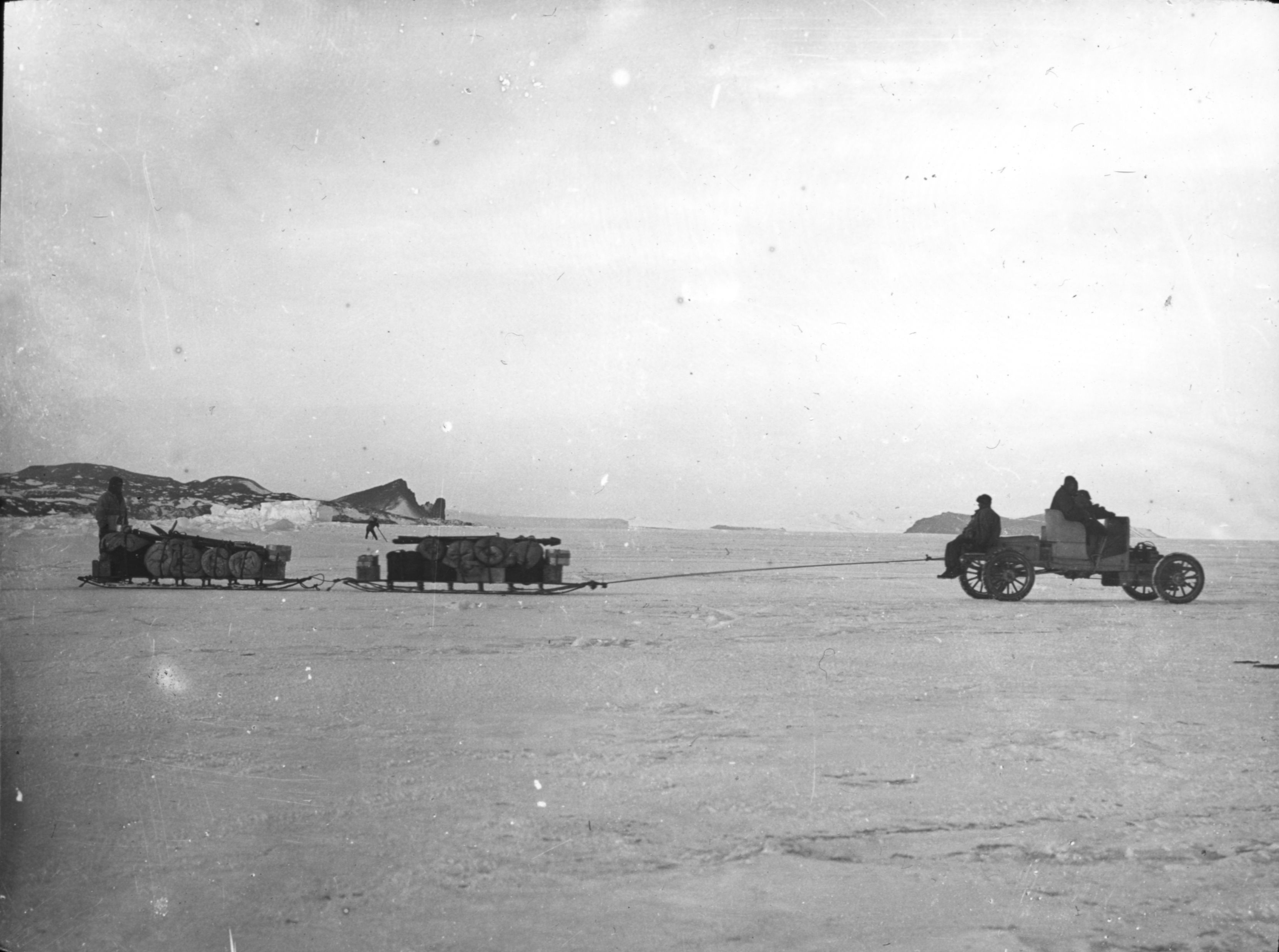 Photographs of the Nimrod Expedition (1907-09) to the Antarctic, led by Ernest Sheckleton